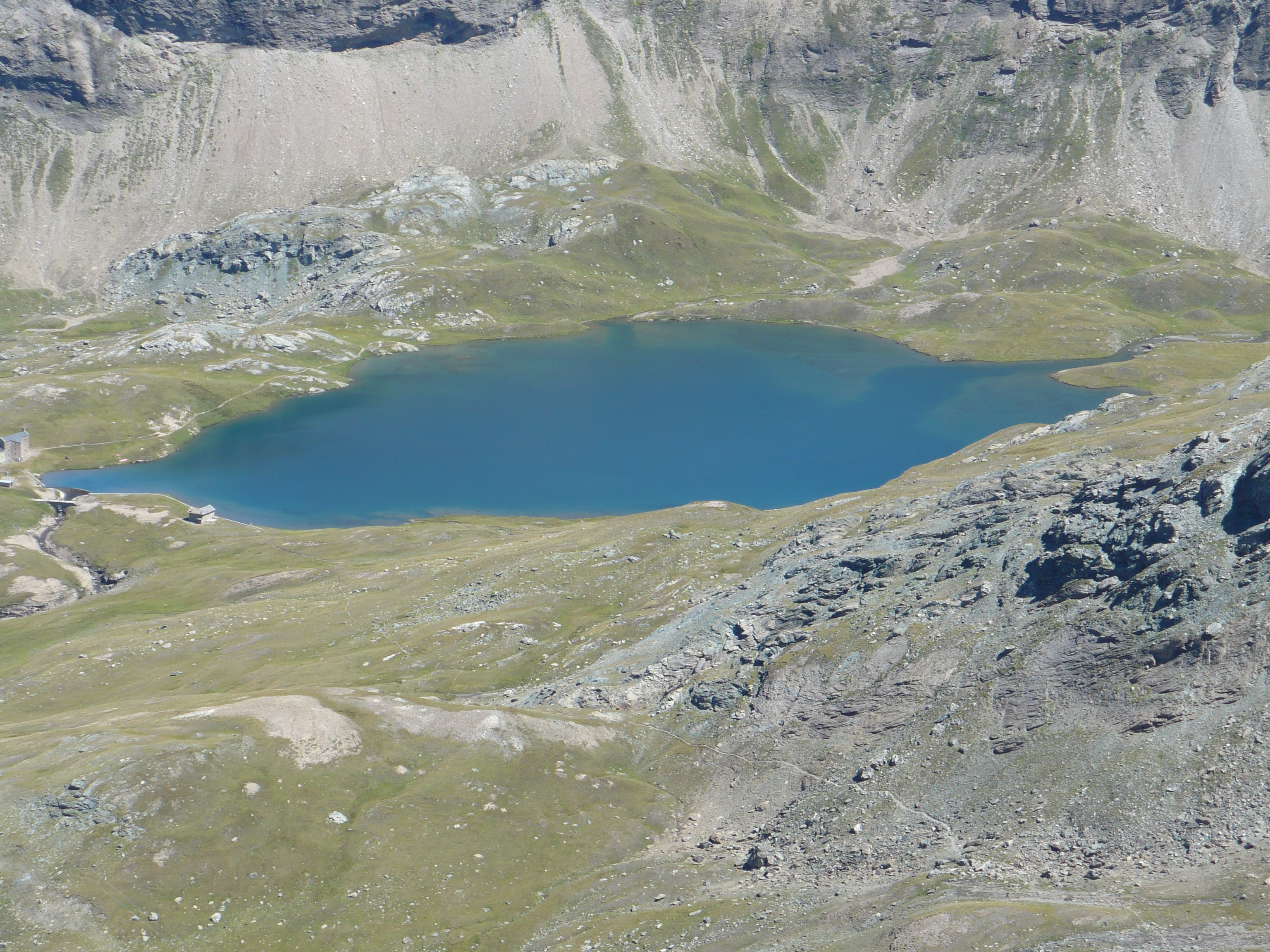 Lake Miserin - Valley of Champorcher - Aosta Valley - Italy